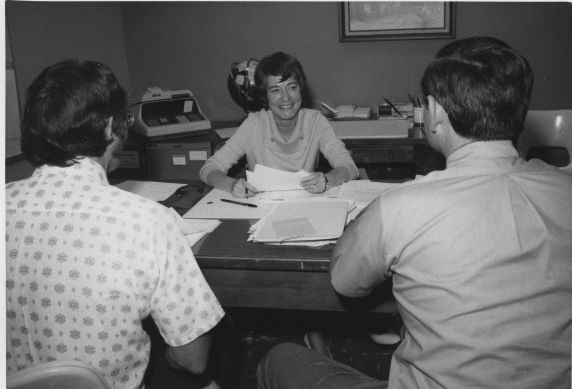 1974 Society of Women Engineers Achievement Award recipient Barbara Crawford Johnson speaks to co-workers in her office, circa 1970-1974. Credit: Wayne State University